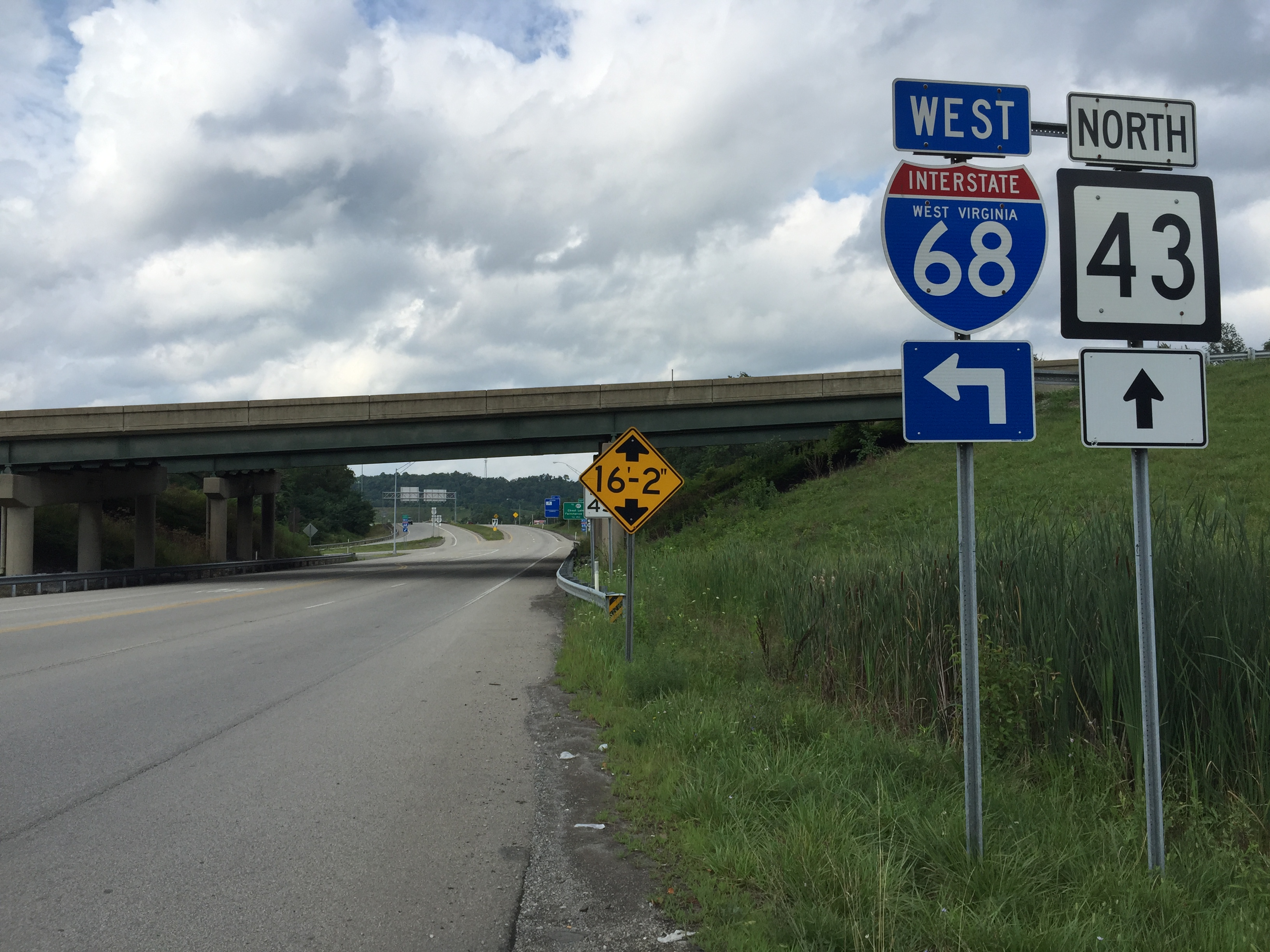 View north along West Virginia State Route 43 (Mon Fayette Expressway) at Interstate 68 in Cheat Lake, Monongalia County, West Virginia